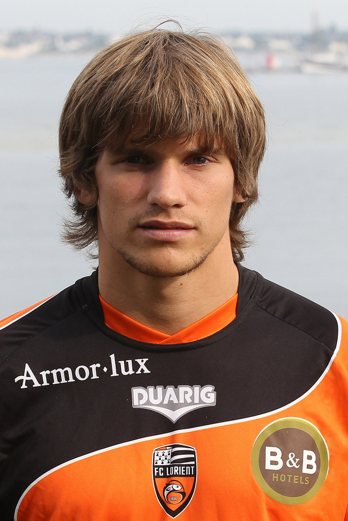 Sebastián Dubarbier, player from the FC Lorient soccer team